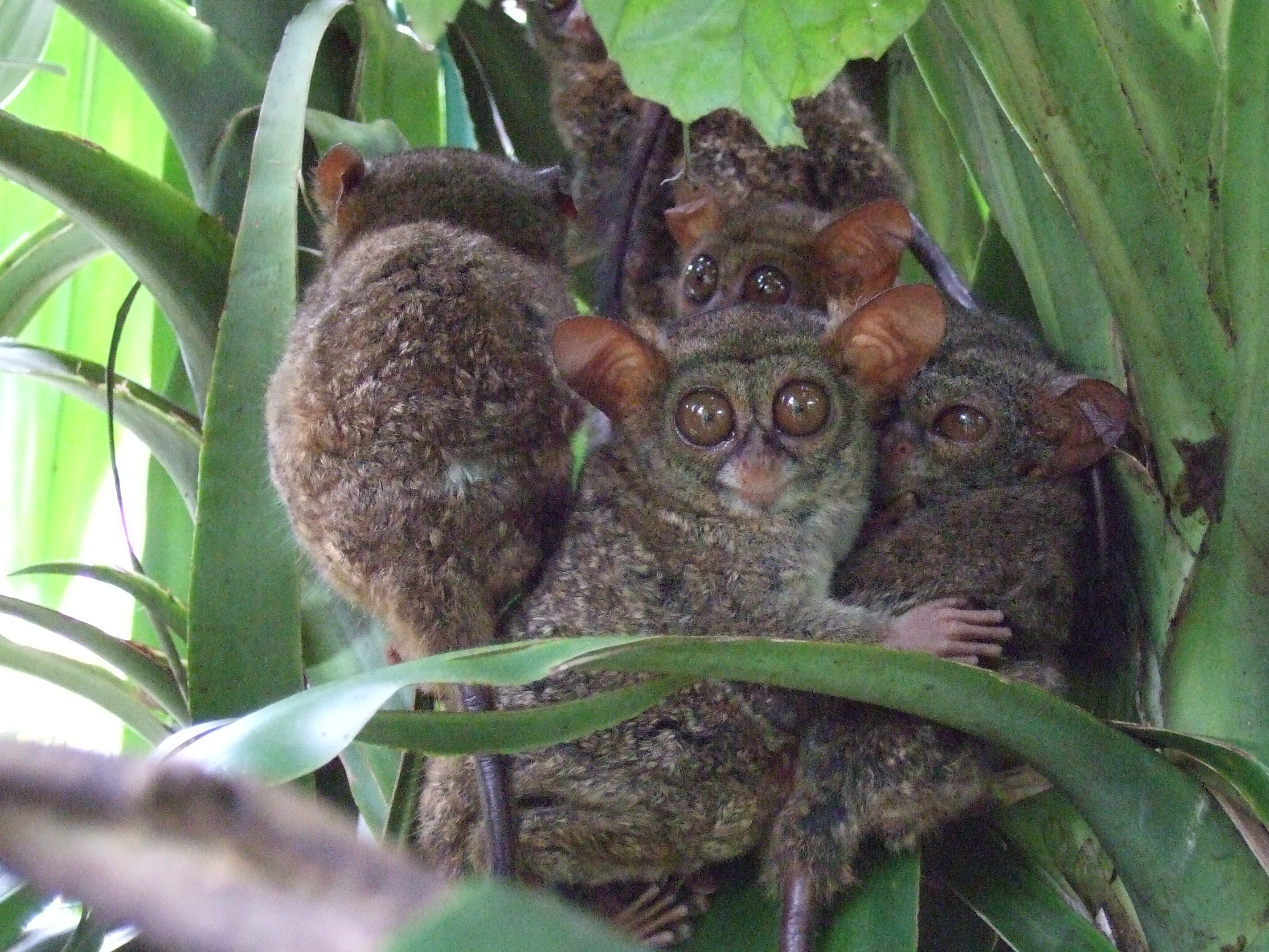 Tarsier Tarsius sp., Grand Naemundung Mini Zoo, Tandurusa, Bitung, North Sulawesi. Geography suggests this is not the Spectral Tarsier (Tarsius tarsier), but an undescribed species called Tarsius sp. 1 by Shekelle and Groves (2010). Reference: Groves, C.; Shekelle, M. (2010). "The Genera and Species of Tarsiidae" (PDF). International Journal of Primatology.